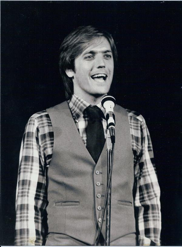 lord argus hamilton 1472